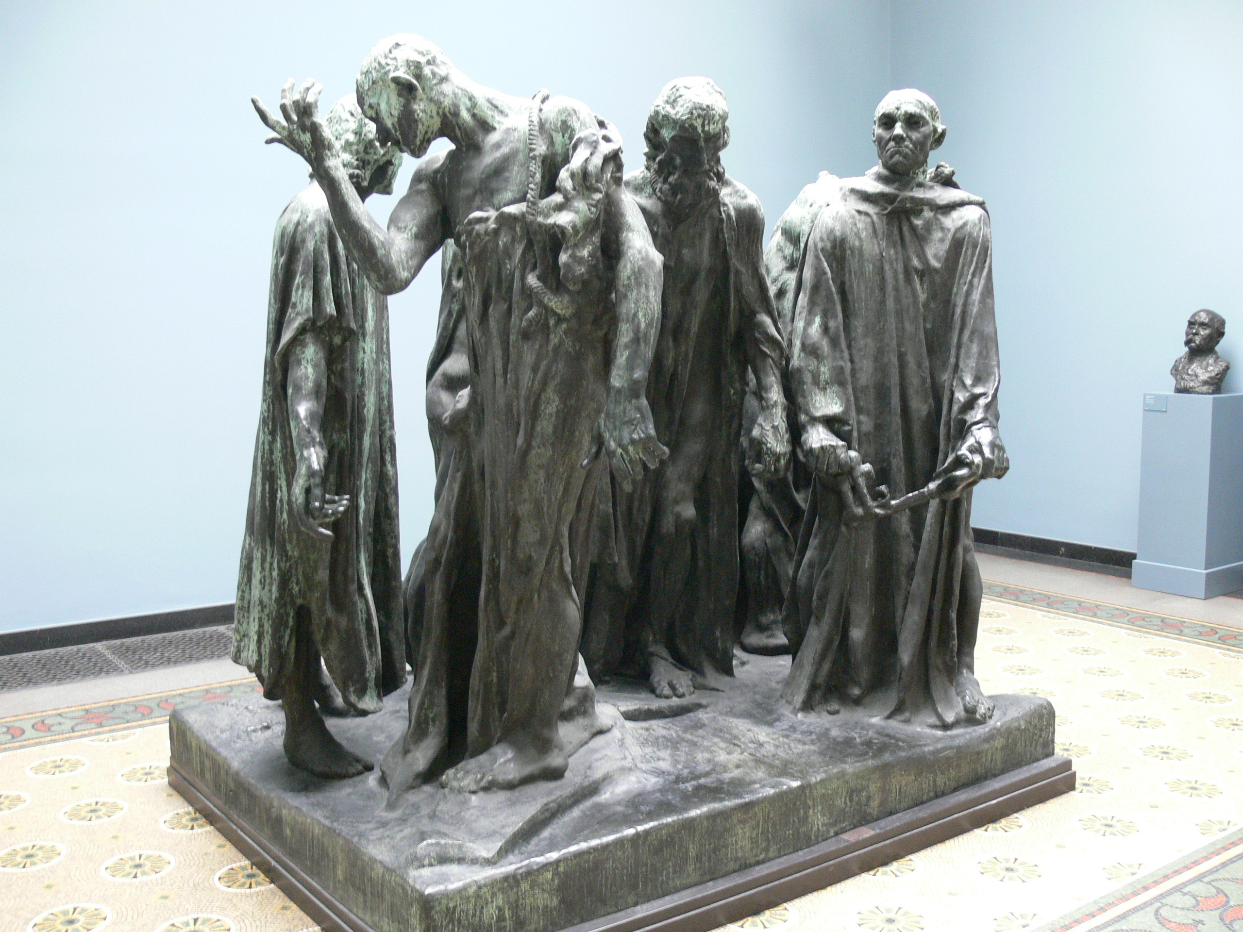 Ny Carlsberg Glyptothek, Copenhagen. "The citizens of Calais" by Auguste Rodin.